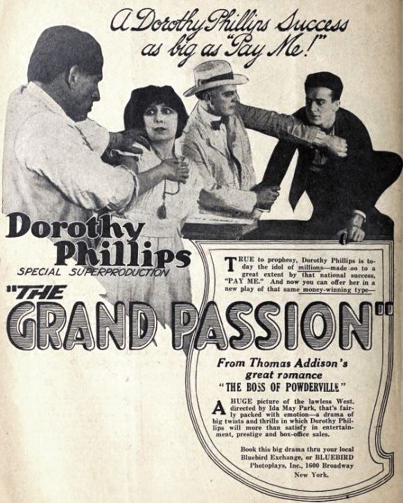 Advertisement for the American drama film The Grand Passion (1918) with Dorothy Phillips, on page 8 of the March 9, 1918 The Moving Picture Weekly.